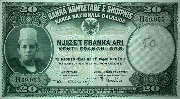 Albanian Franc from world war II